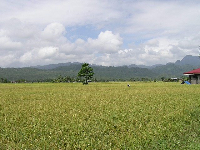 One of the rice grainery of Poblacion